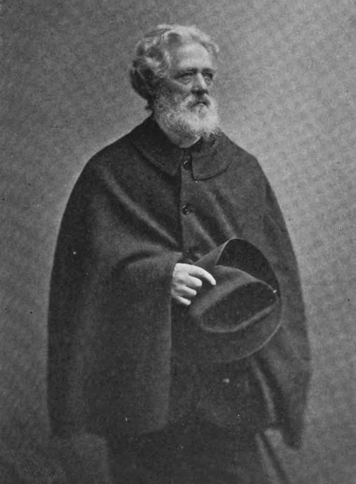 Portrait of Philip James Bailey